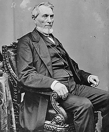 Robert Porter Caldwell, US Representative from Tennessee